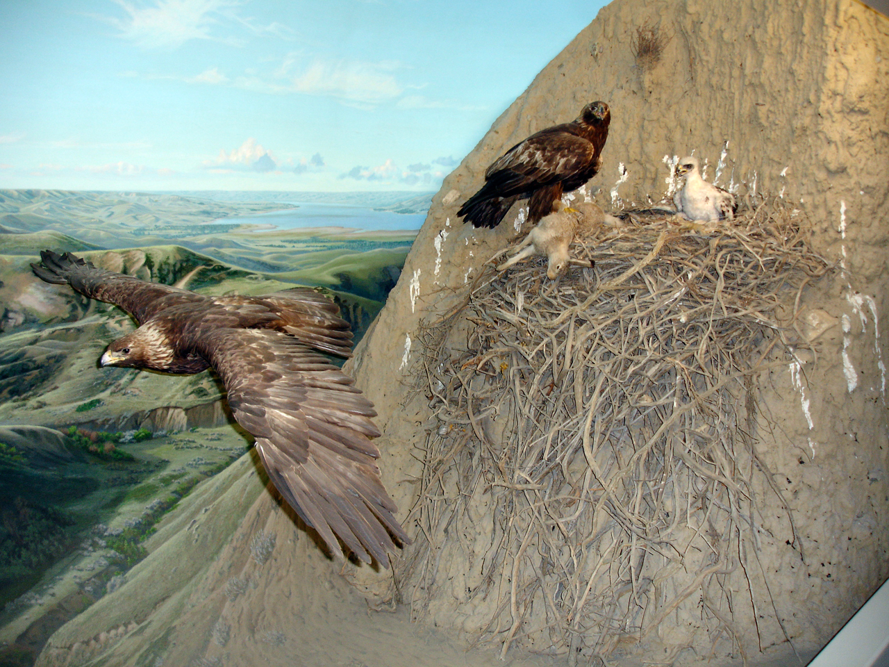 Golden eagles are birds of prey common seen in Saskatchewan. They typically feed on small mammals such as ground squirrels, rabbits and other birds such as grouse.